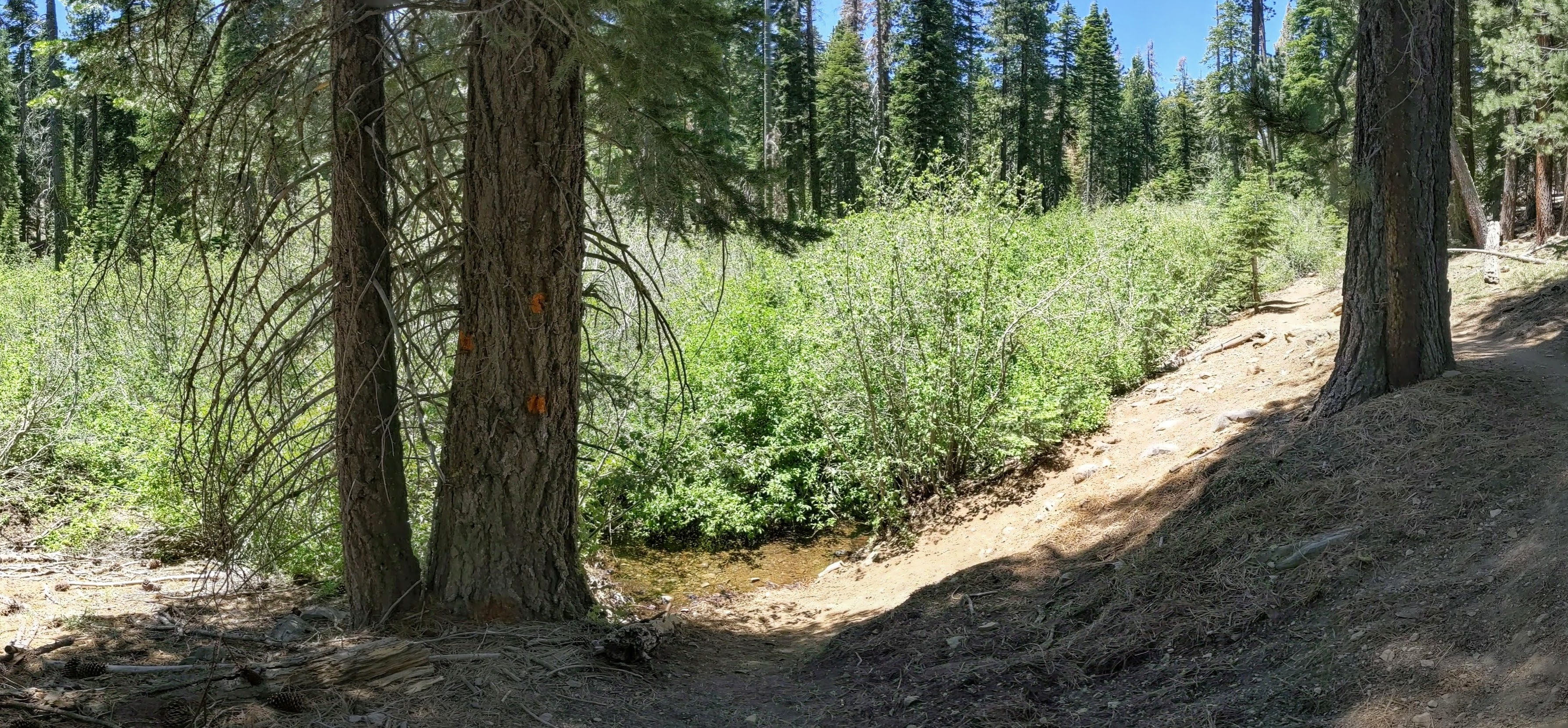 Watson Creek and Trail, north of Lake Tahoe, California. Just north of Shivagiri Road, where the creek is more easily heard than seen.